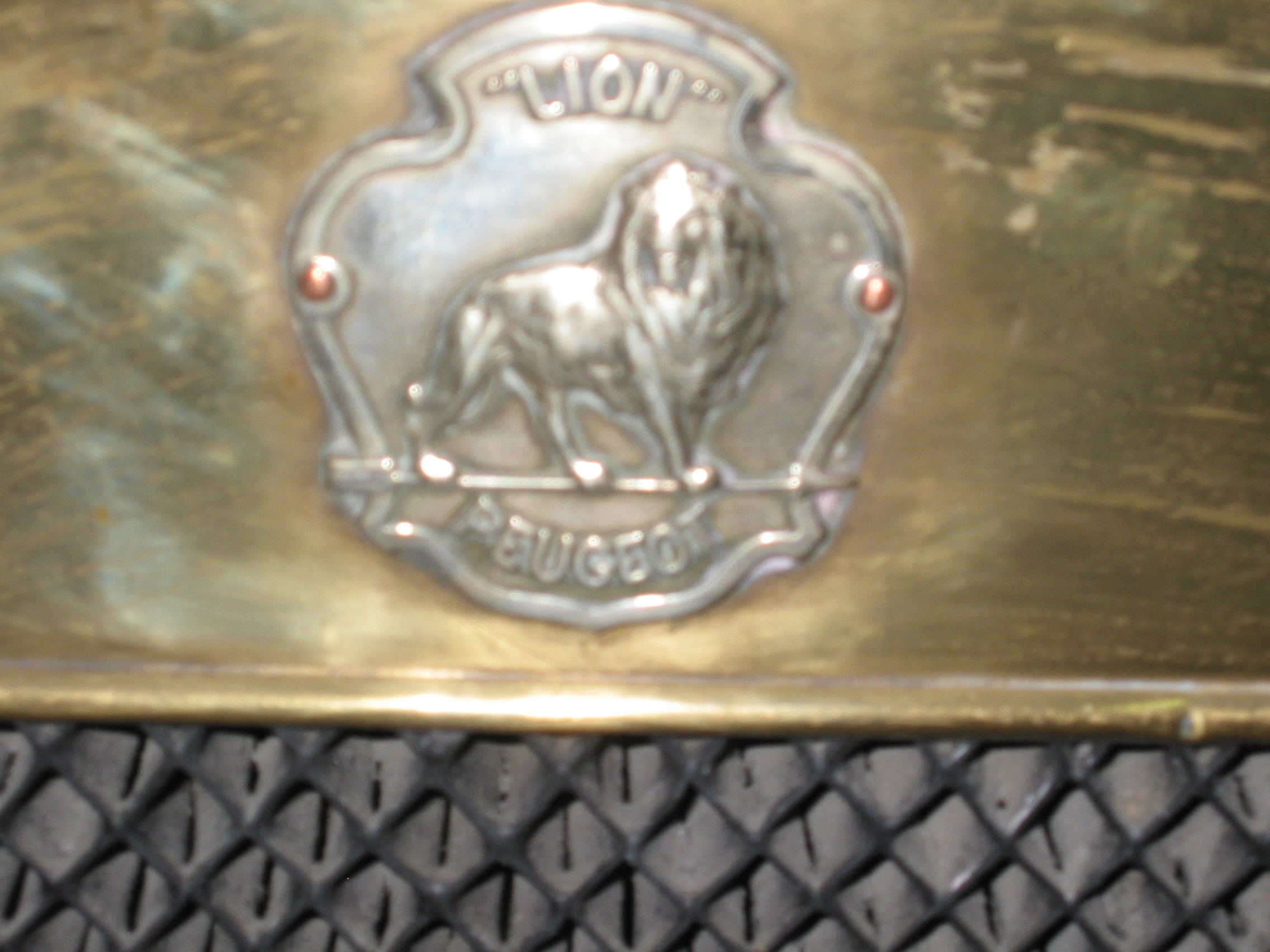 Emblem of Lion-Peugeot VA 1906